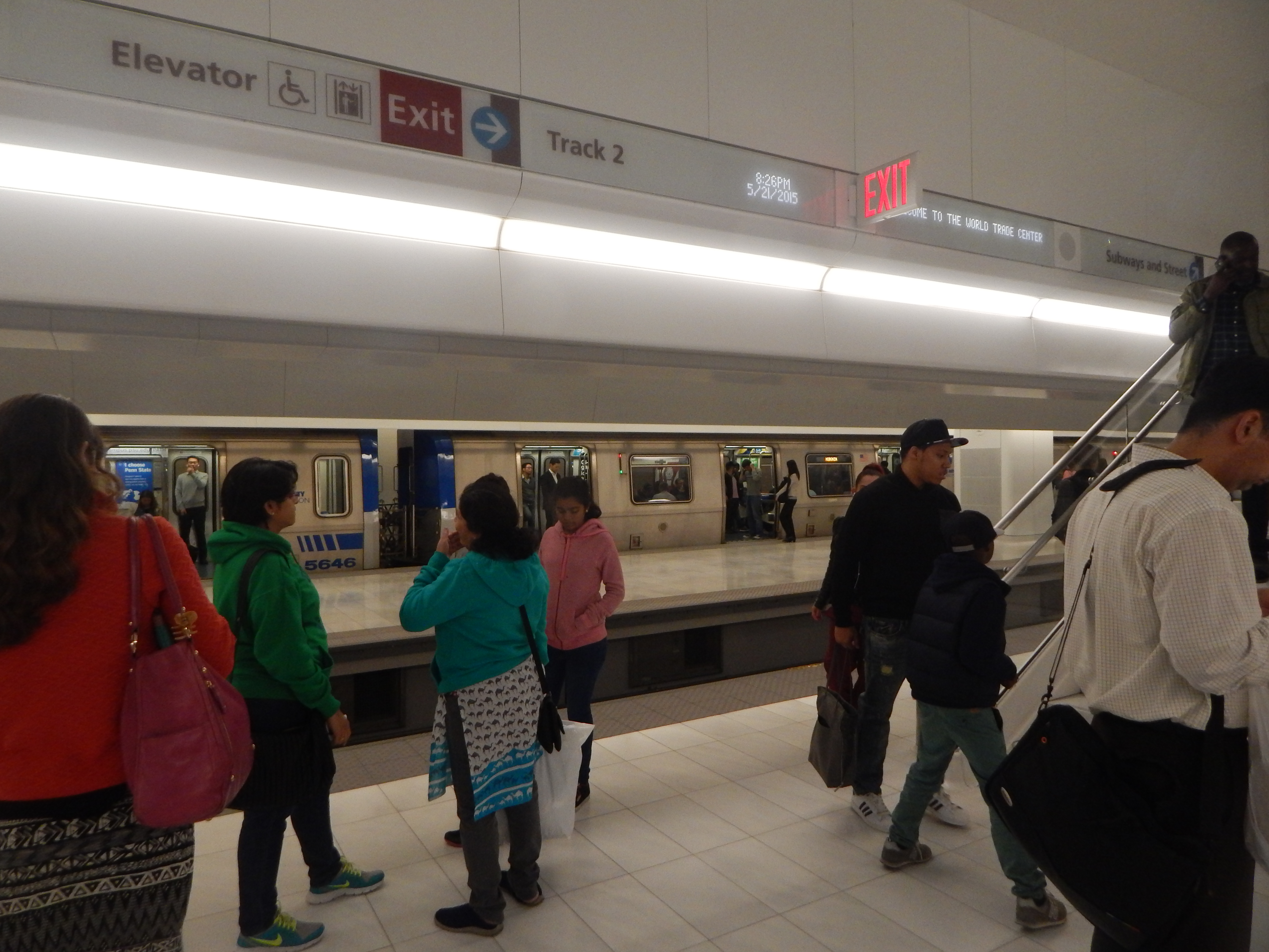 World Trade Center, Manhattan, New York